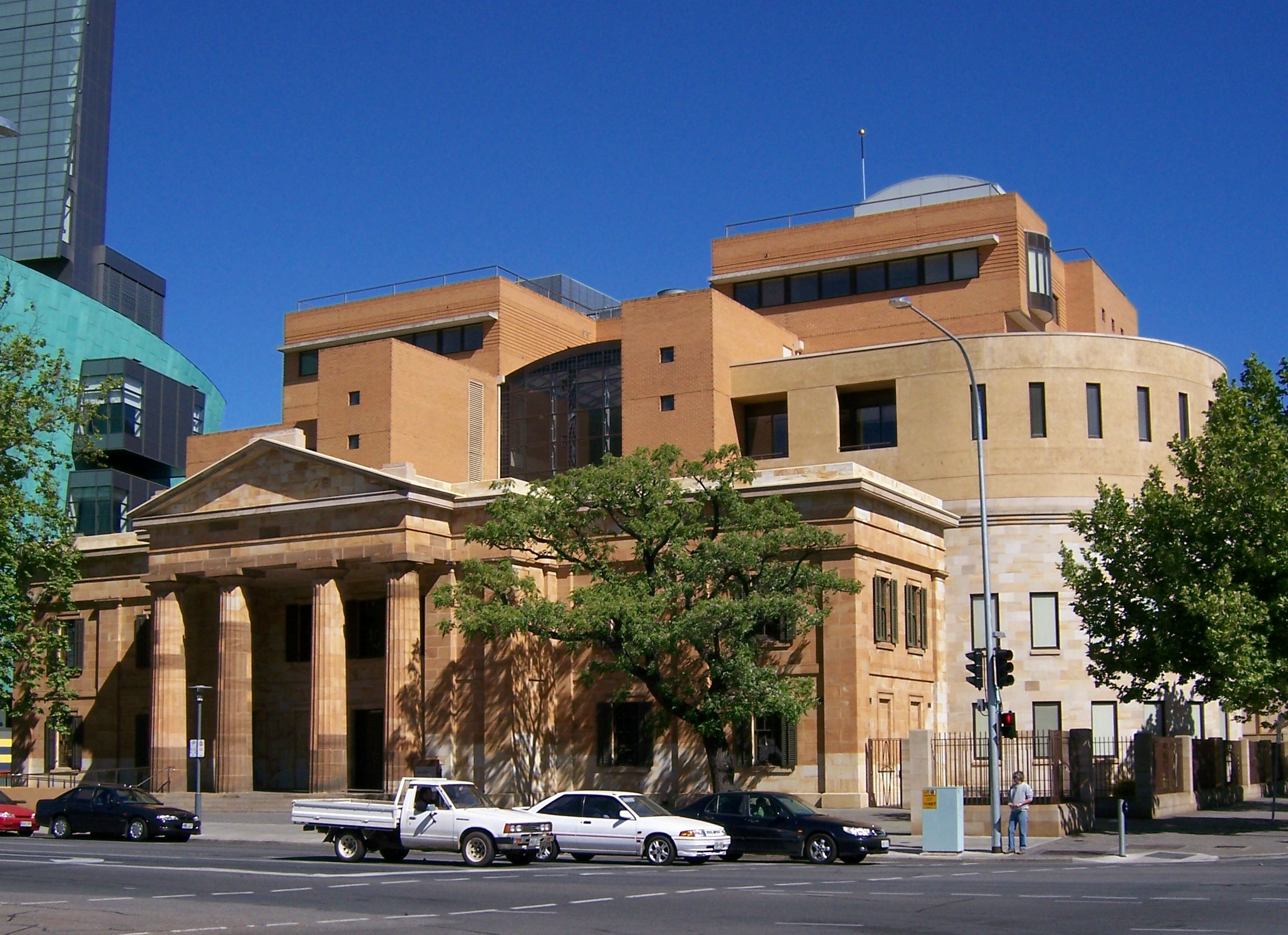 Adelaide Magistrates' Court from Victoria Square.